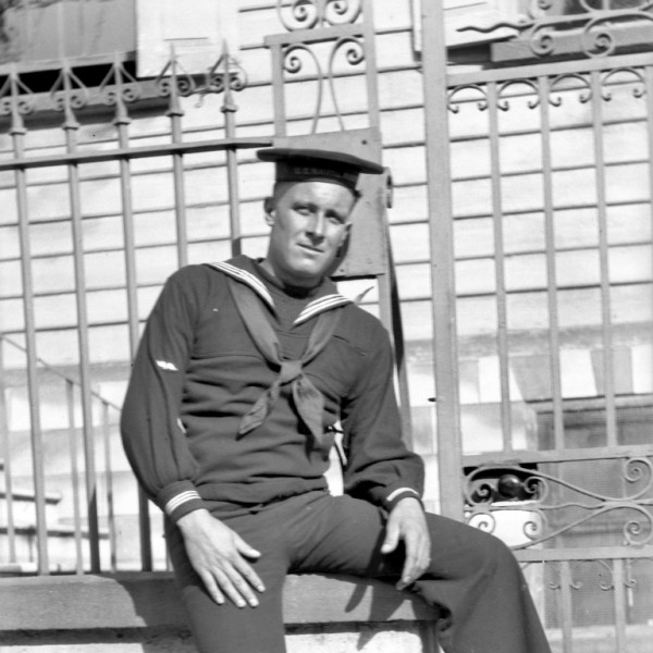 Sailor in front of a gate